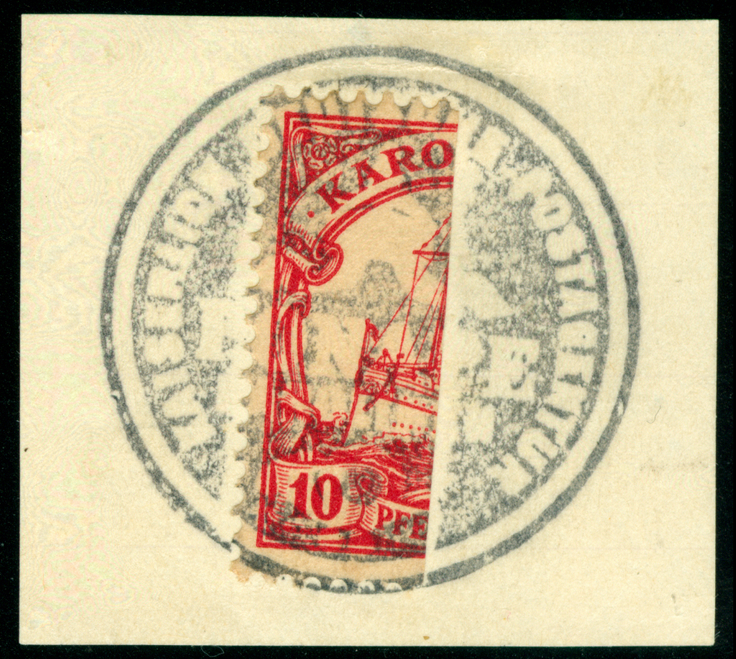 Bisected in Ponape postage stamp of the German Caroline Islands, SMY Hohenzollern issue, 10 pfennigs, 1905